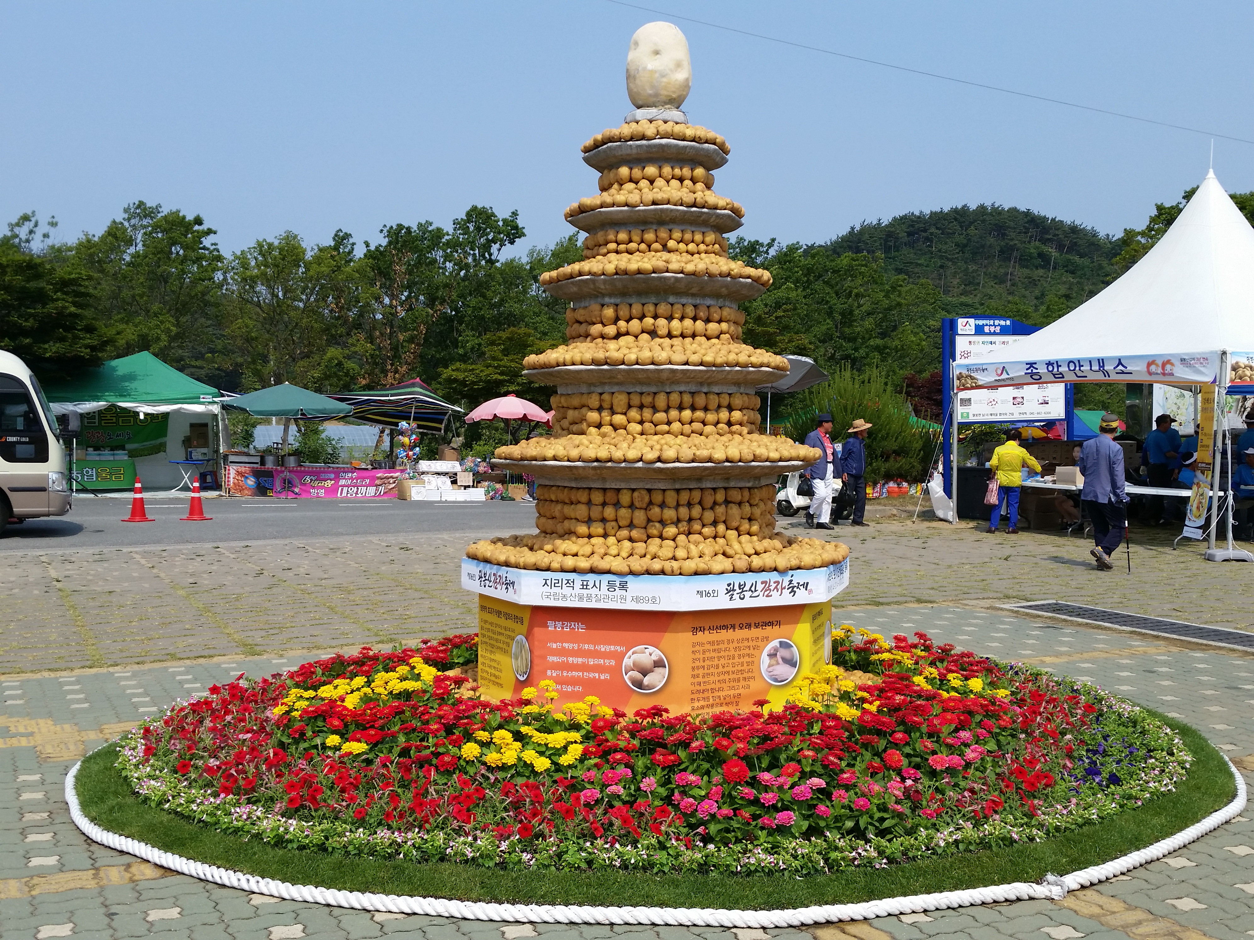 Palbongsan Potato Festival